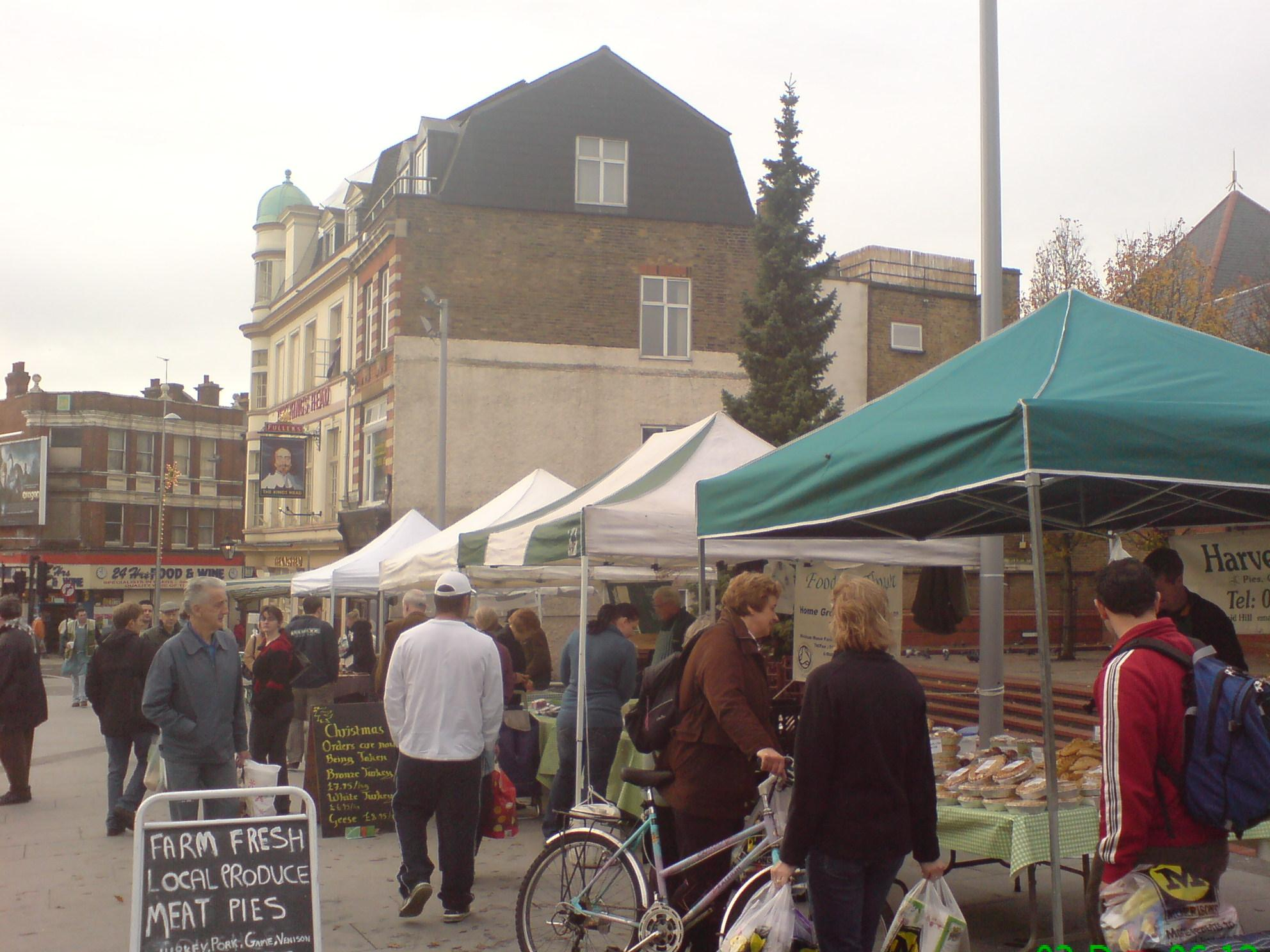 Acton Farmers' Market - Pilot. December 2, 2006. You can see the Kings Head pub in the background.